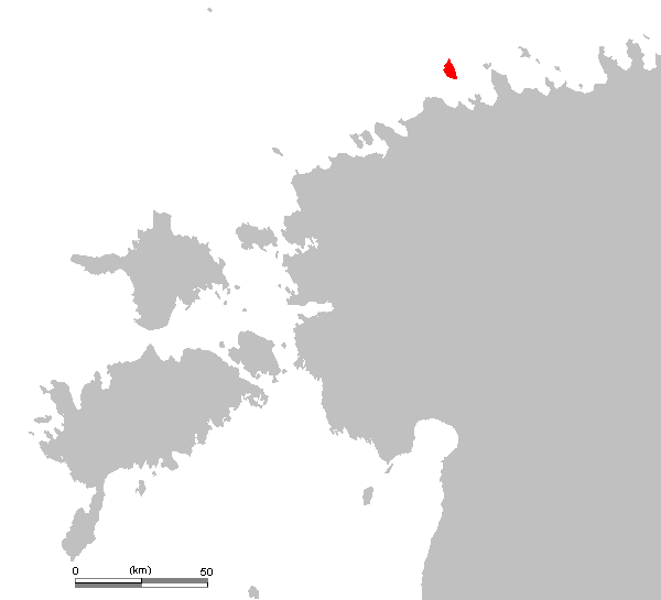 Naissaar on the map of Estonia.